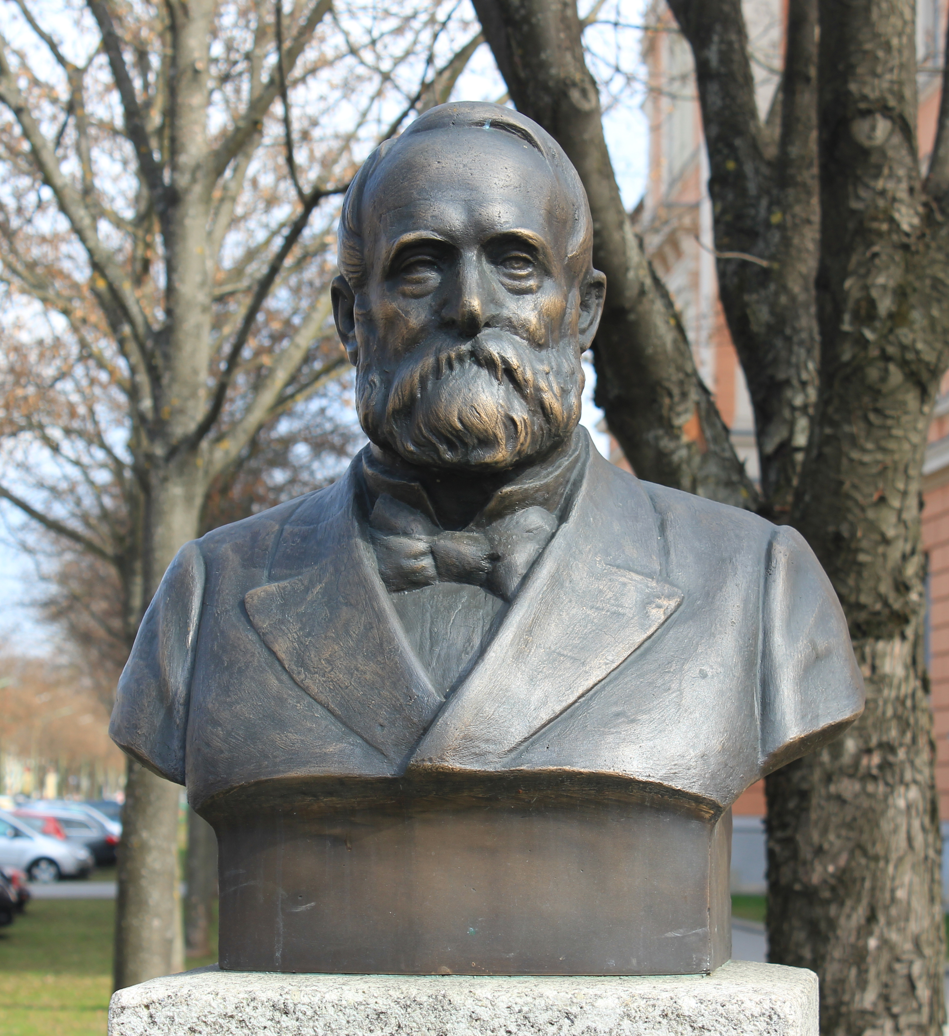 Monument for Gabriel Jessernigg in Klagenfurt